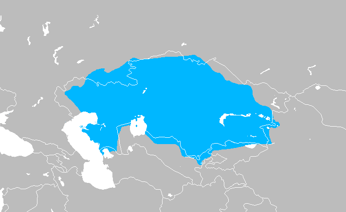 Map of the Kazakh Khanate in around 18th century.